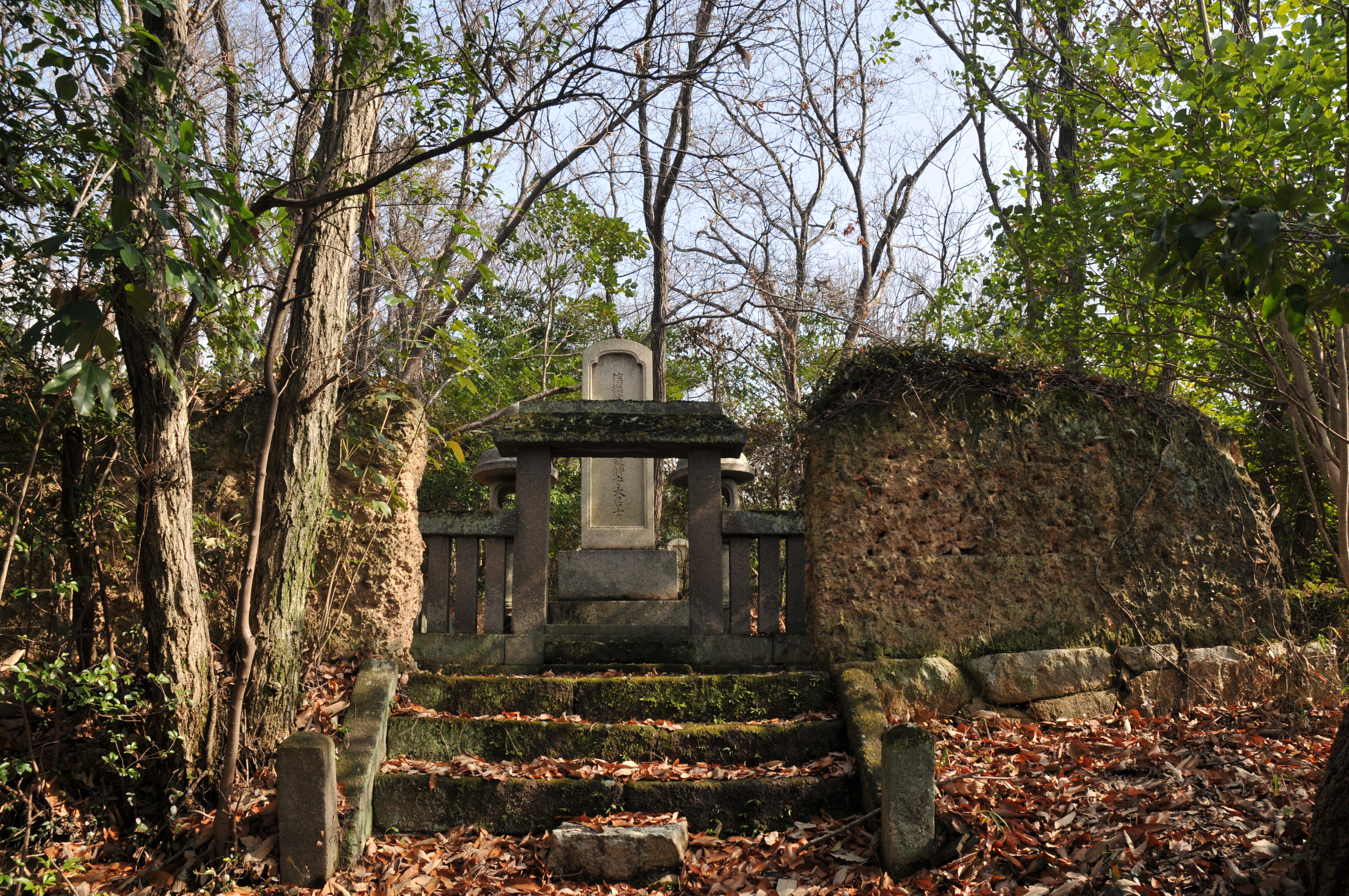 grave of Igi Tadamoto(10th family head)